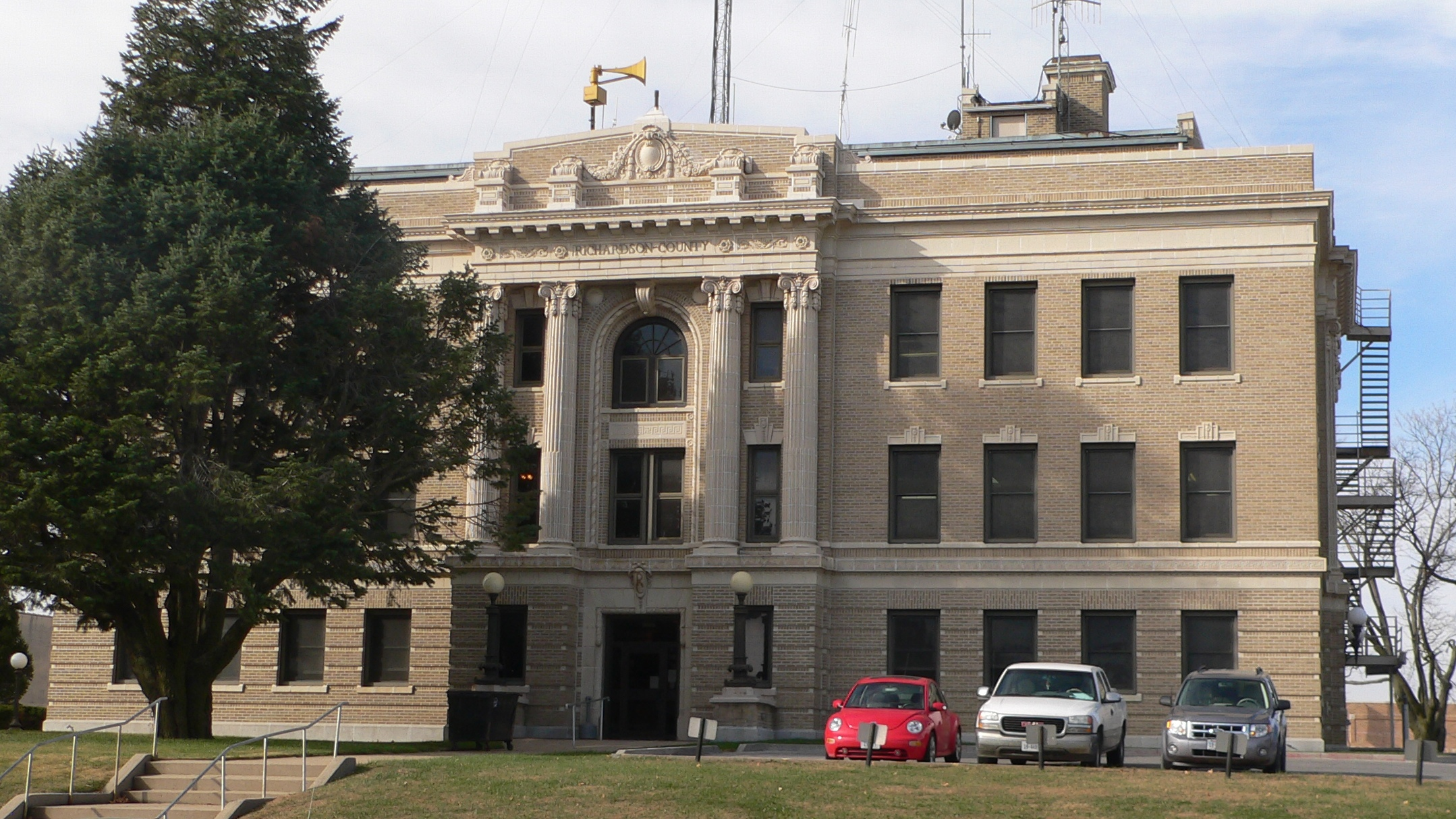 Richardson County Courthouse in Falls City, Nebraska: seen from the east.